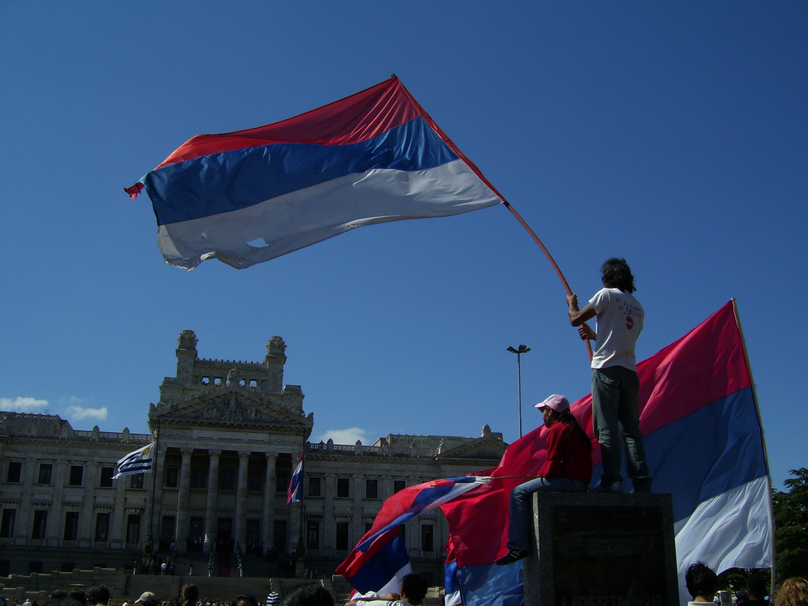 Flag of the Frente Amplio (politic group of Uruguay) in the Legislative Palace of Uruguay the day of the change of president.